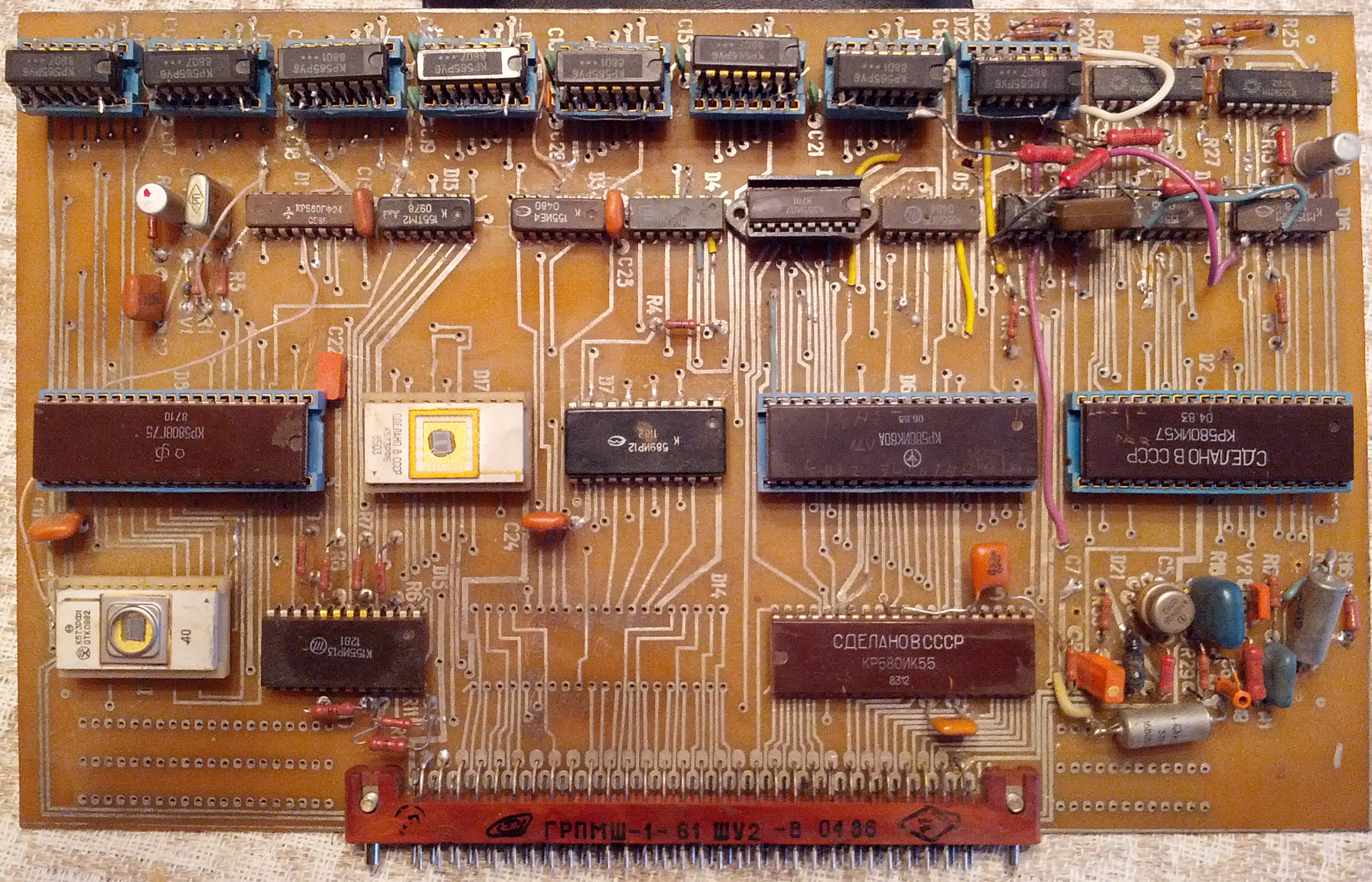 Circuit board of the amateur Radio86RK computer. This computer has been assembled shortly after specs were published and was operational for about five years. The memory has been extended to 32 KB, stacking memory chips vertically (all pins are shared, except the selector pin that has been bent apart for the upper row, to be connected to the separate bus). The place of the second interface chip next to the large connector is empty (it has been dedicated to various experiments and was not required for the ordinary peripherials to work). On the bottom right, the amplifier for the tape data recorder can be seen. Hand assembled and photographed by uploader.